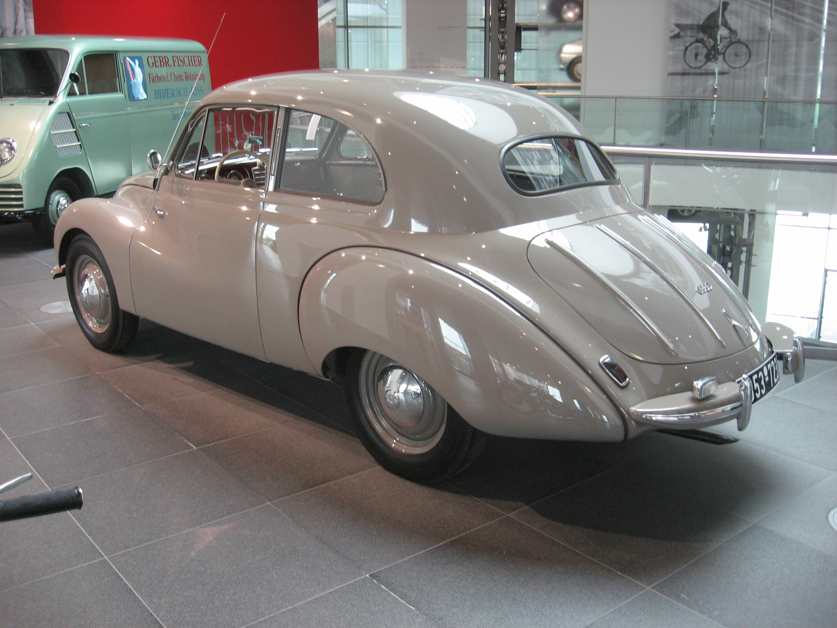 Subject: DKW F89 Author: Luc106 Date: June 13th, 2011 Place/Country: Audi Museum, Ingolstadt (Deutschland) Licensing